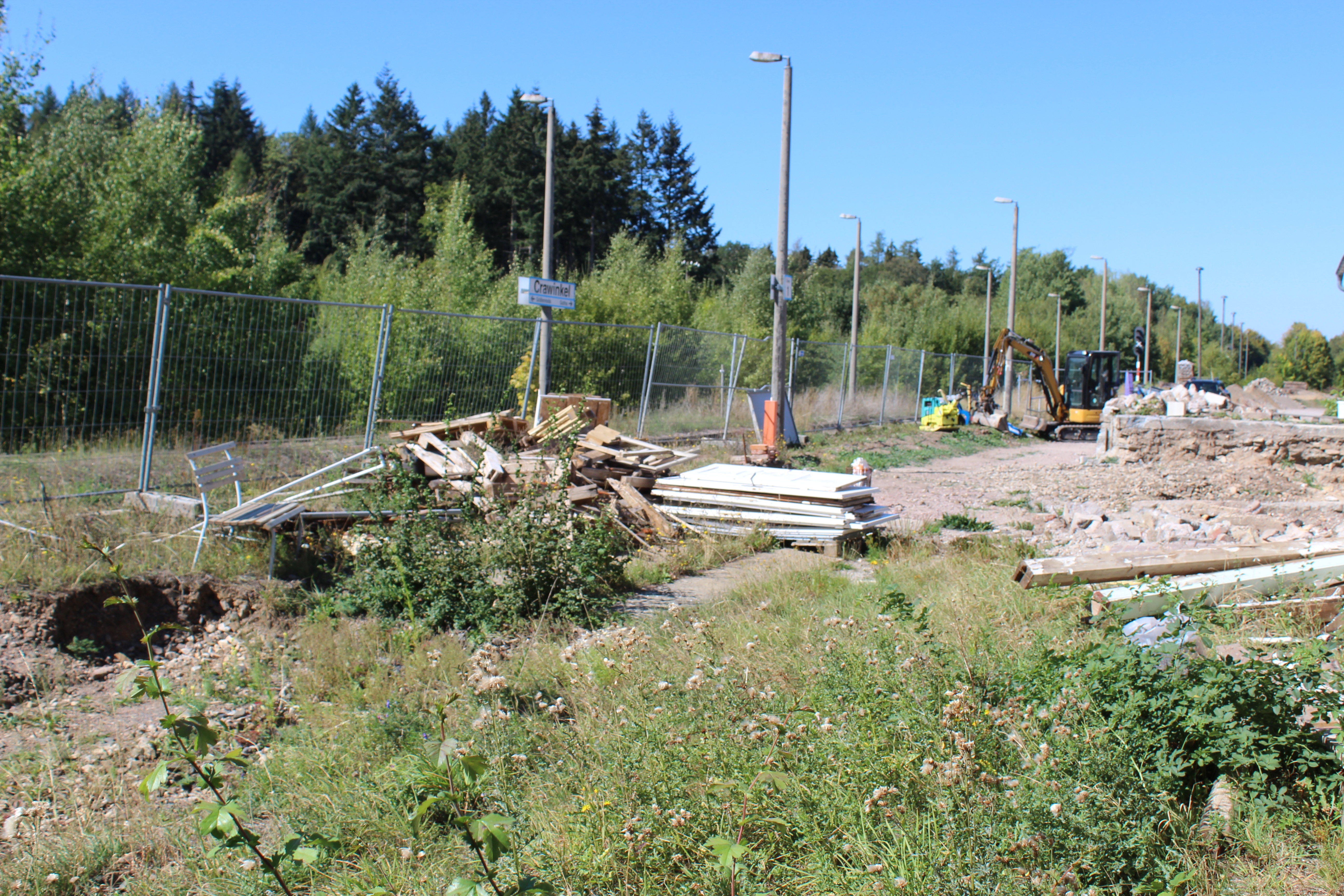 train station Crawinkel